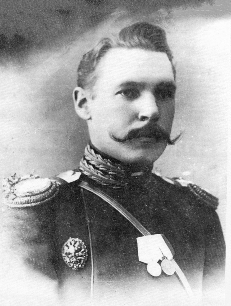 Graduation picture of Russian weapons designer Vladimir Grigoryevich Fyodorov